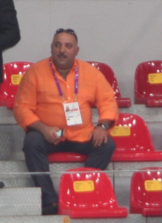 Bahram Bagirzade watchin bronze match between Azerbaijan and Serbia at the 2015 European Games women's volleyball